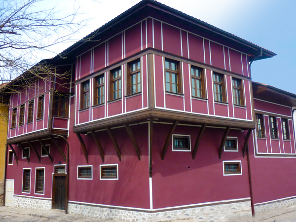 Bulgaria. Old town Plovdiv. Klianti house.